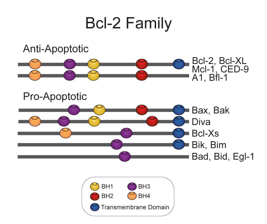 Bcl-2 family.